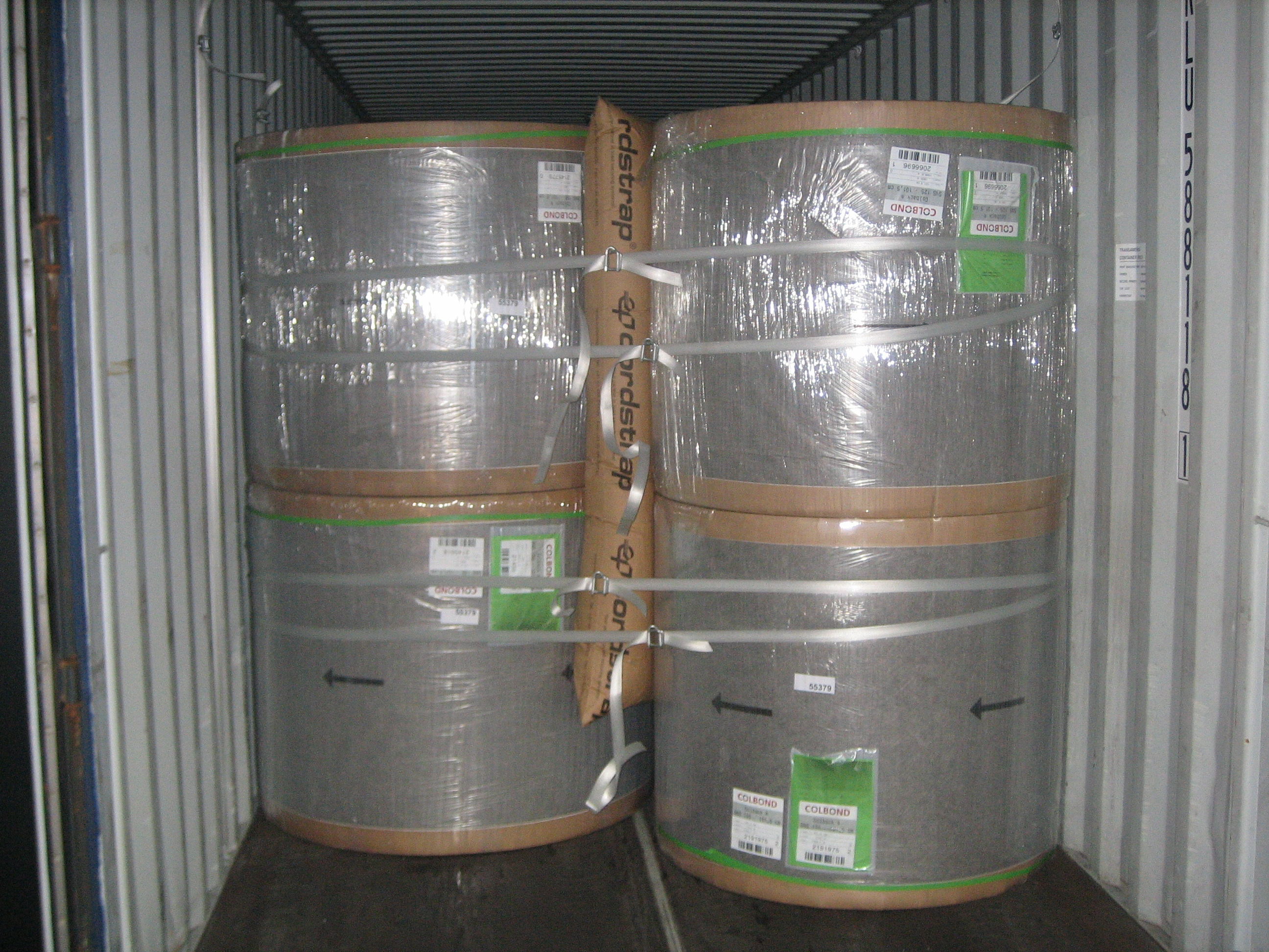 application of Cordstrap dunnage bag in container